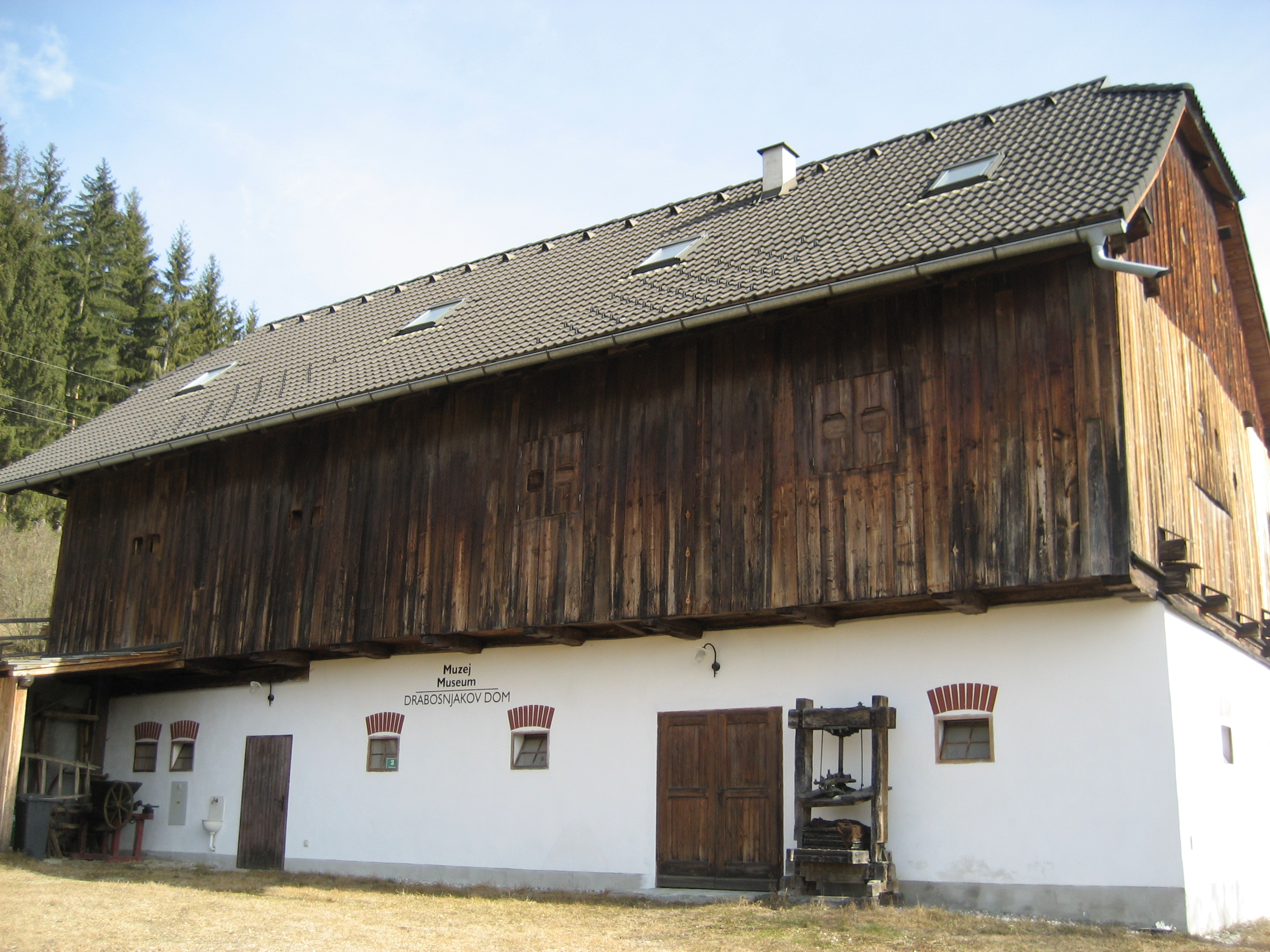 Drabosnjak - Museum of slovenian popular culture in Kostanje / Köstenberg, Vrba / Velden am Wörther See in Carinthia/Austria